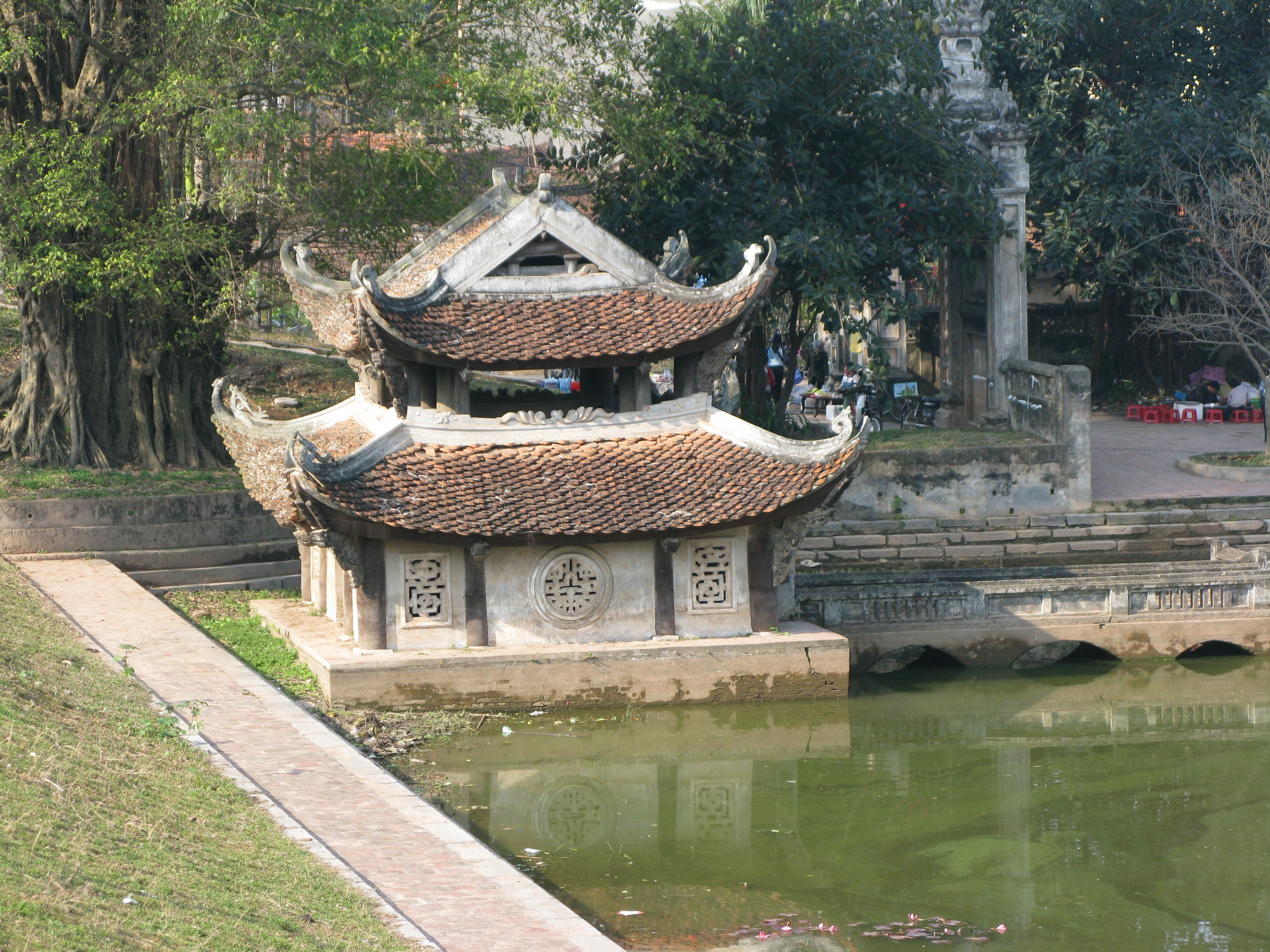 the Water Pavillion in Phu Dong Shrine (Phù Đổng village, Gia Lâm, Hà Nội)